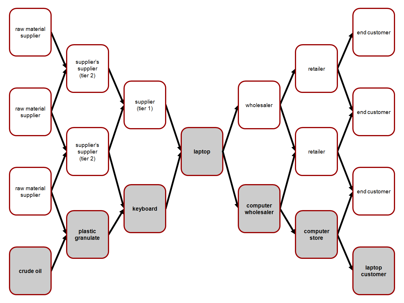 Supply and demand network